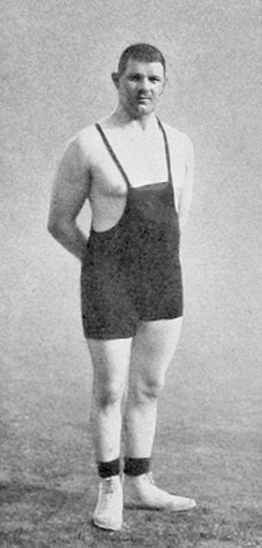 Anders Ahlgren at the 1912 Summer Olympics